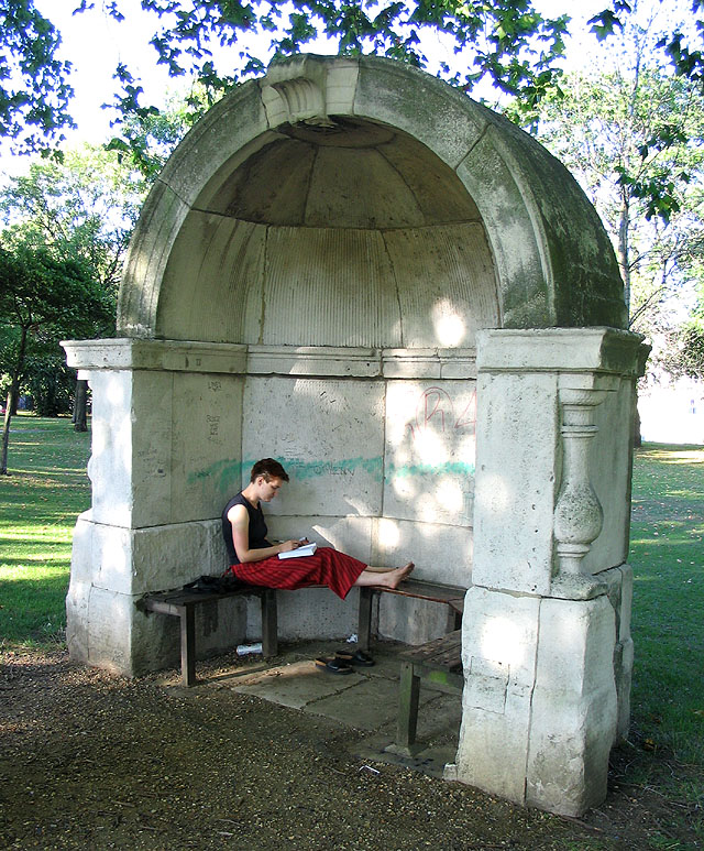 Pedestrian alcove originally from Old London Bridge (demolished 1831), now in Victoria Park, Tower Hamlets, London.